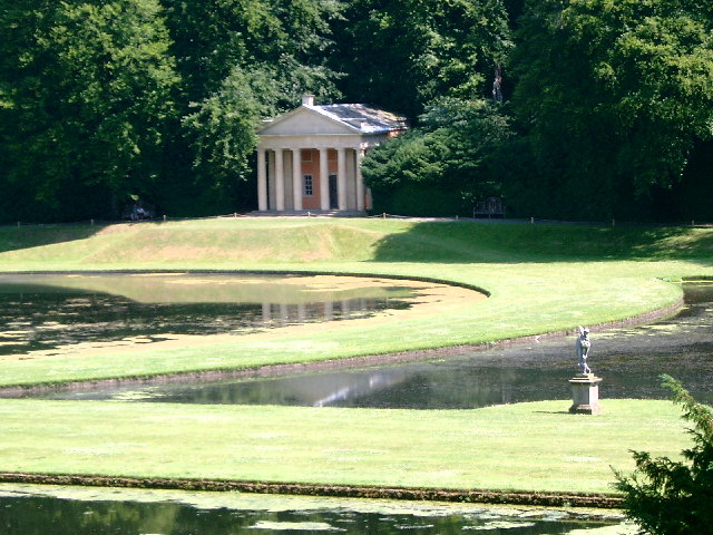 Studley Royal Park water garden.